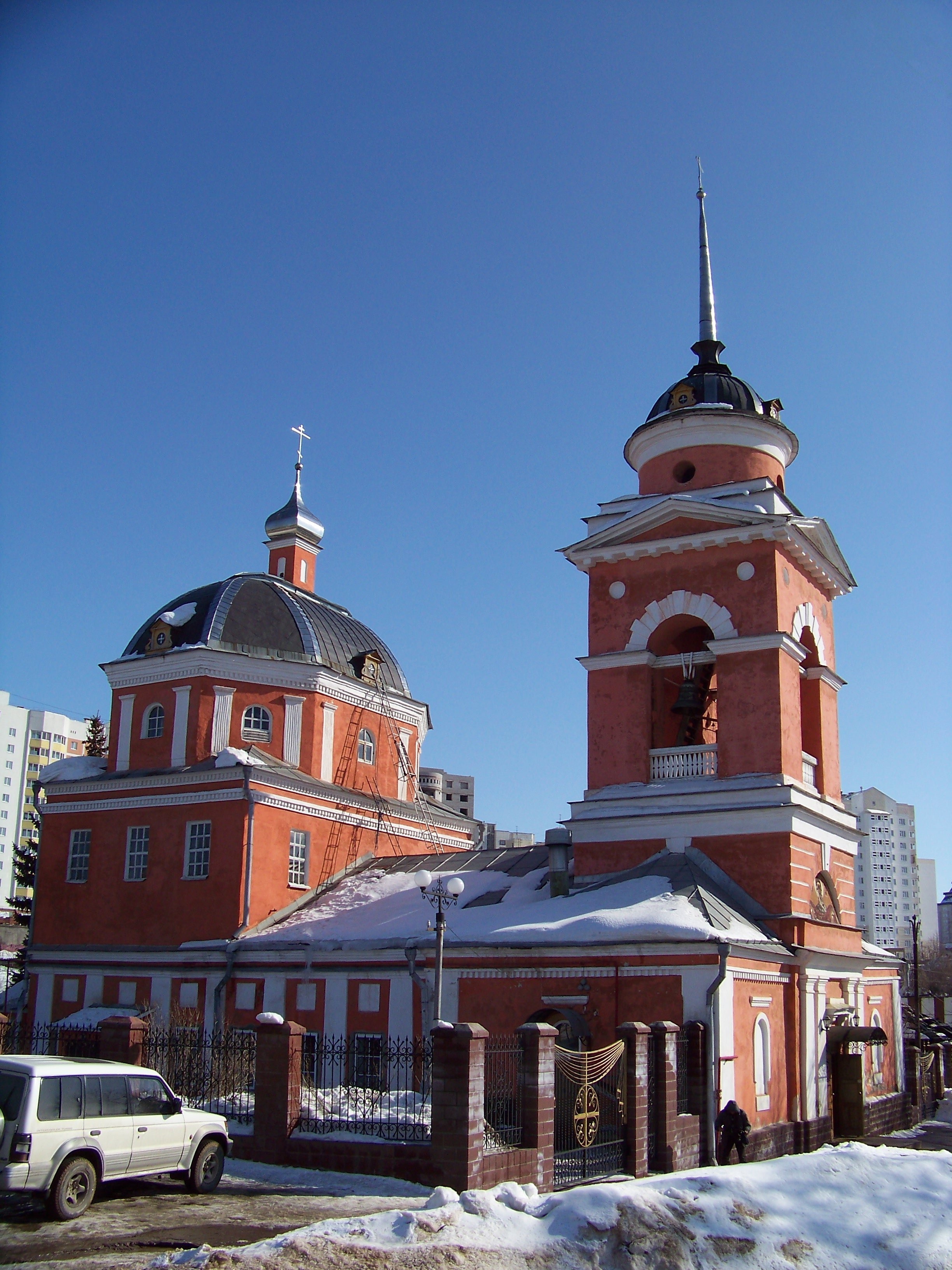 Pokrovskaya church in Ufa, Russia